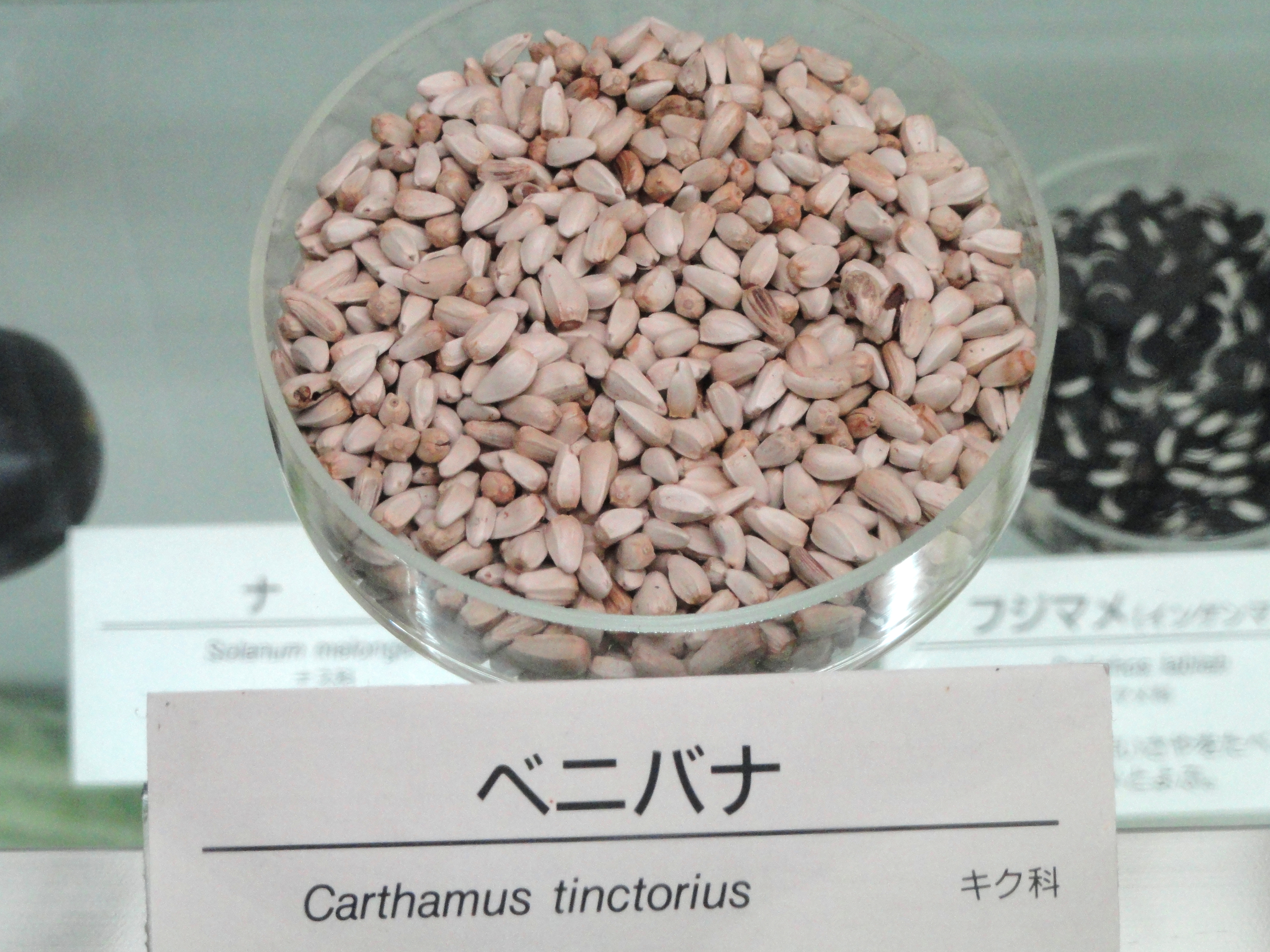 Exhibit in the Osaka Museum of Natural History, Osaka, Japan.